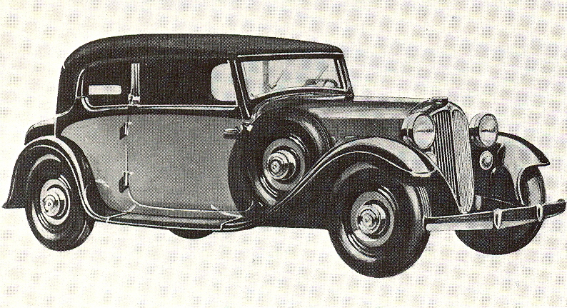 Steyr 430 Convertible 4 windows (Body: Gläser) (1934)